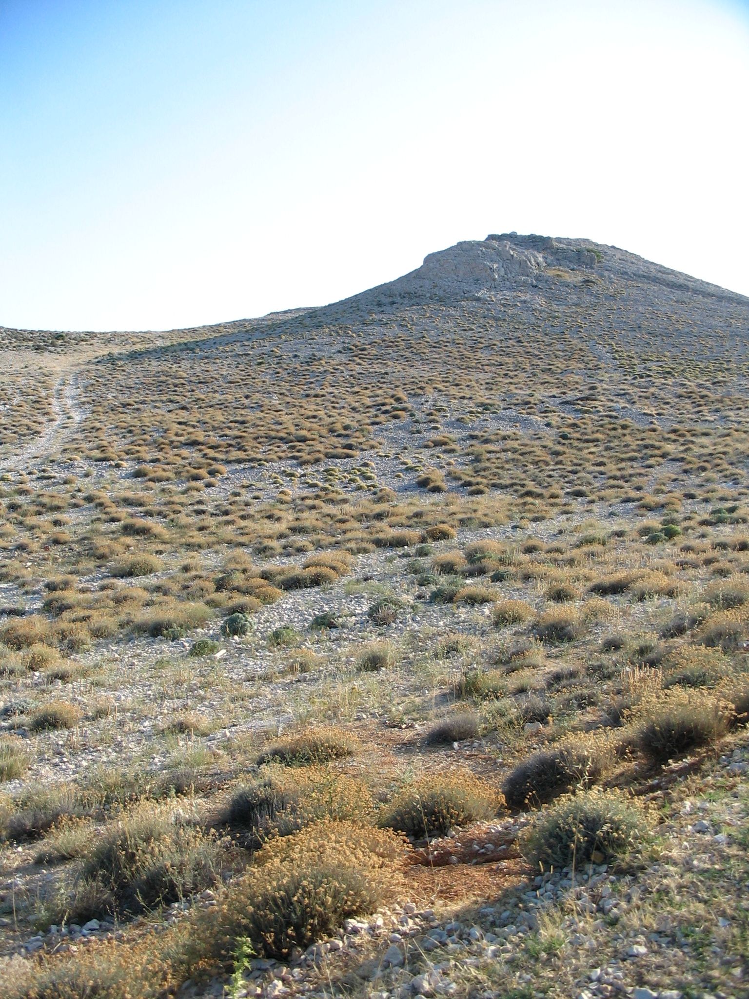 This is a photo I have taken in south of the Rab island in Croatia.